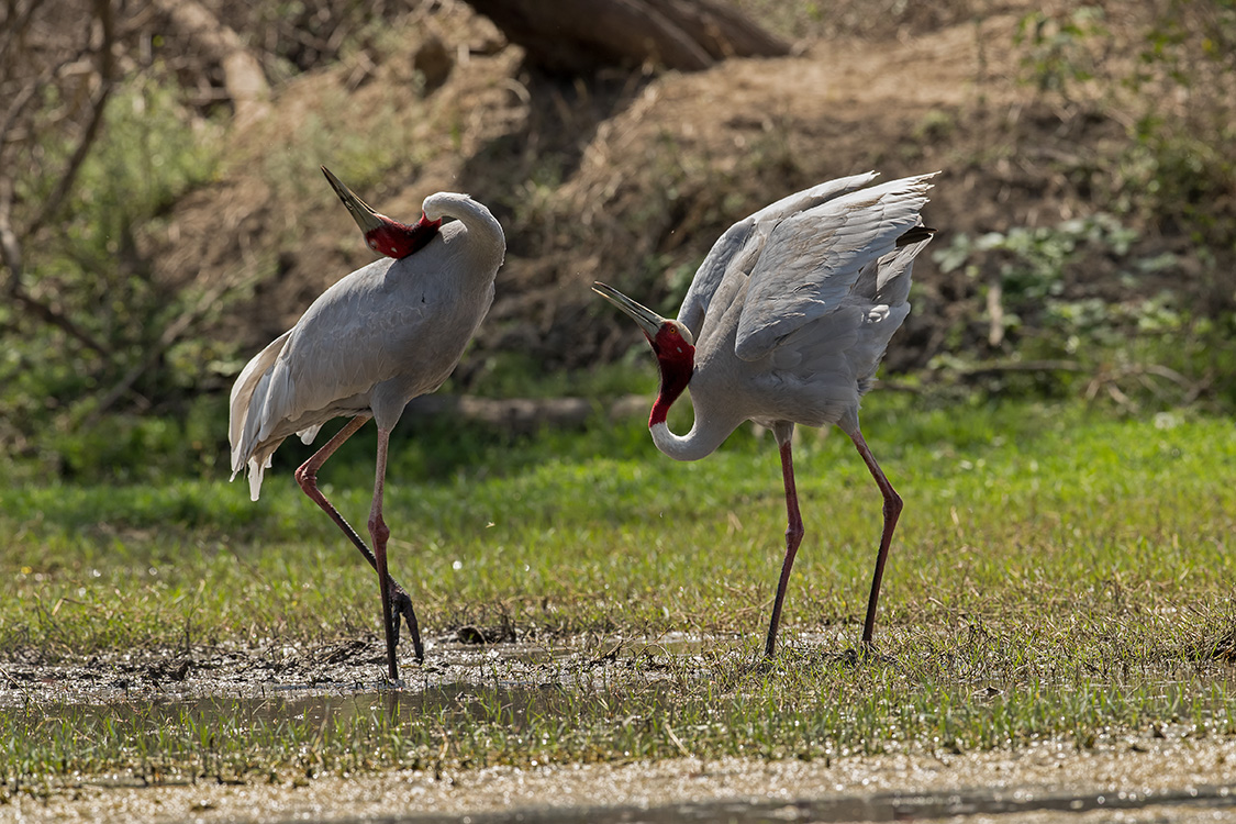 courtship dance